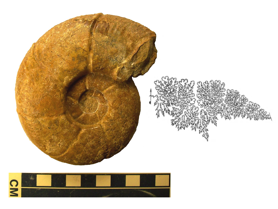 ammonite specimen referable to genus Puzosia (Puzosia) Bayle. From Late Cretaceous of Madagascar.